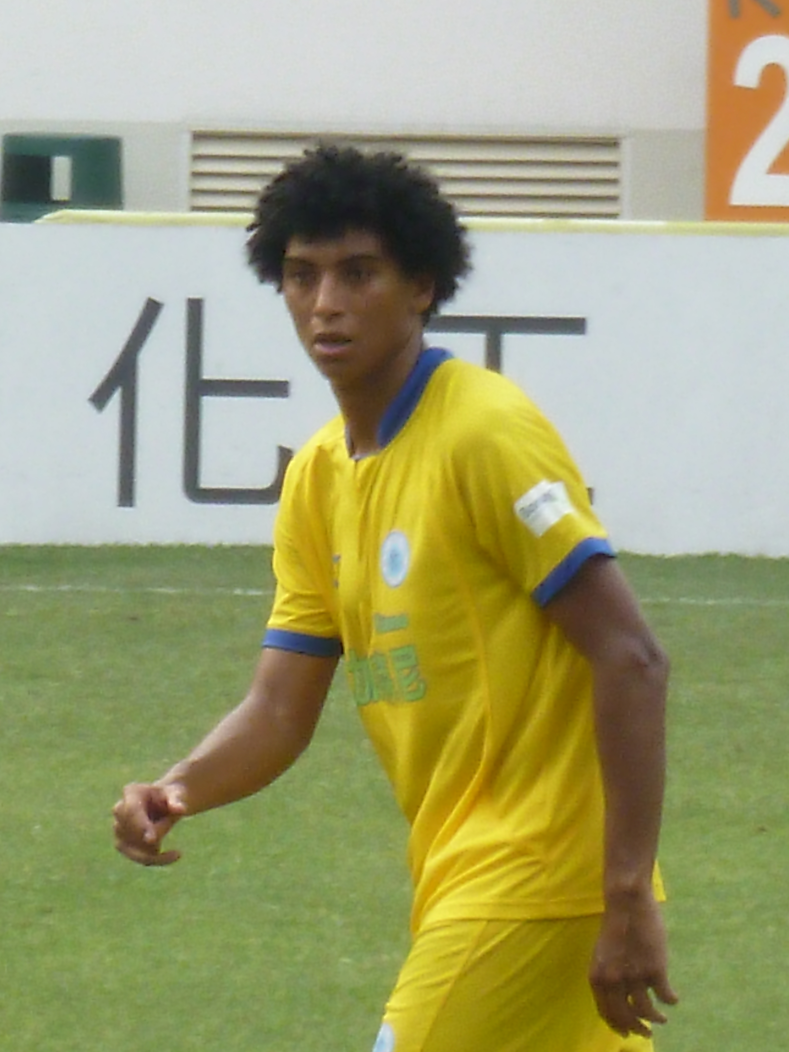 Iván Zarandona (27 Apr 2014, Hong Kong FA Cup semi-final, Rangers vs Kitchee, Mong Kok Stadium) 中文（香港）: 沙蘭當拿 (27 Apr 2014, 香港足總盃準決賽, 流浪 vs 傑志, 旺角大球場)